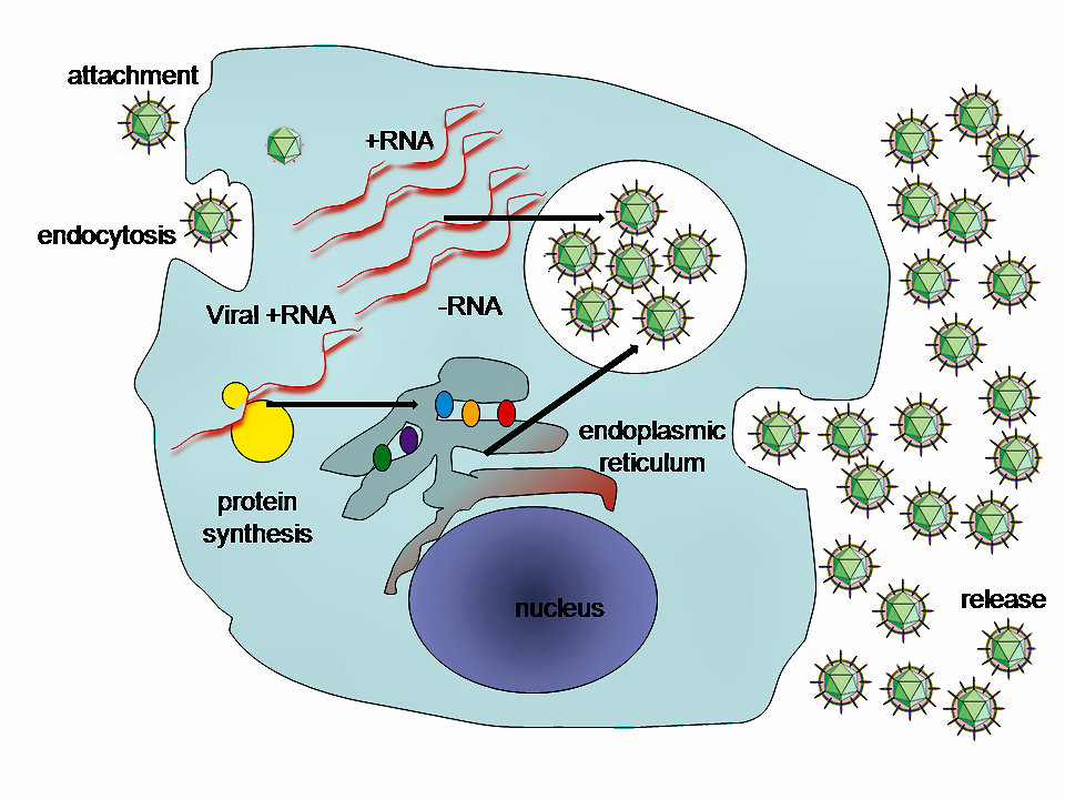 A simplified diagram of the Hepatitis C virus replication cycle. Created by User:GrahamColm